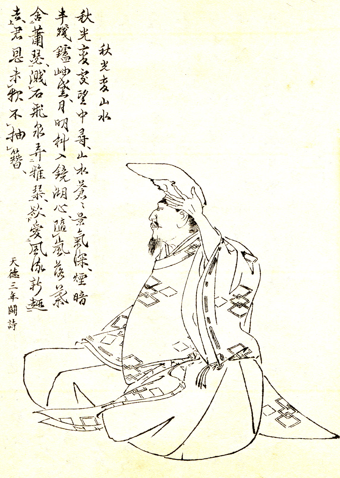 Minamoto no Shitagō (源順) was an early Heian waka poet, scholar and nobleman.This picture was drawn by Kikuchi Yosai（菊池容斎） who was a painter in Japan.